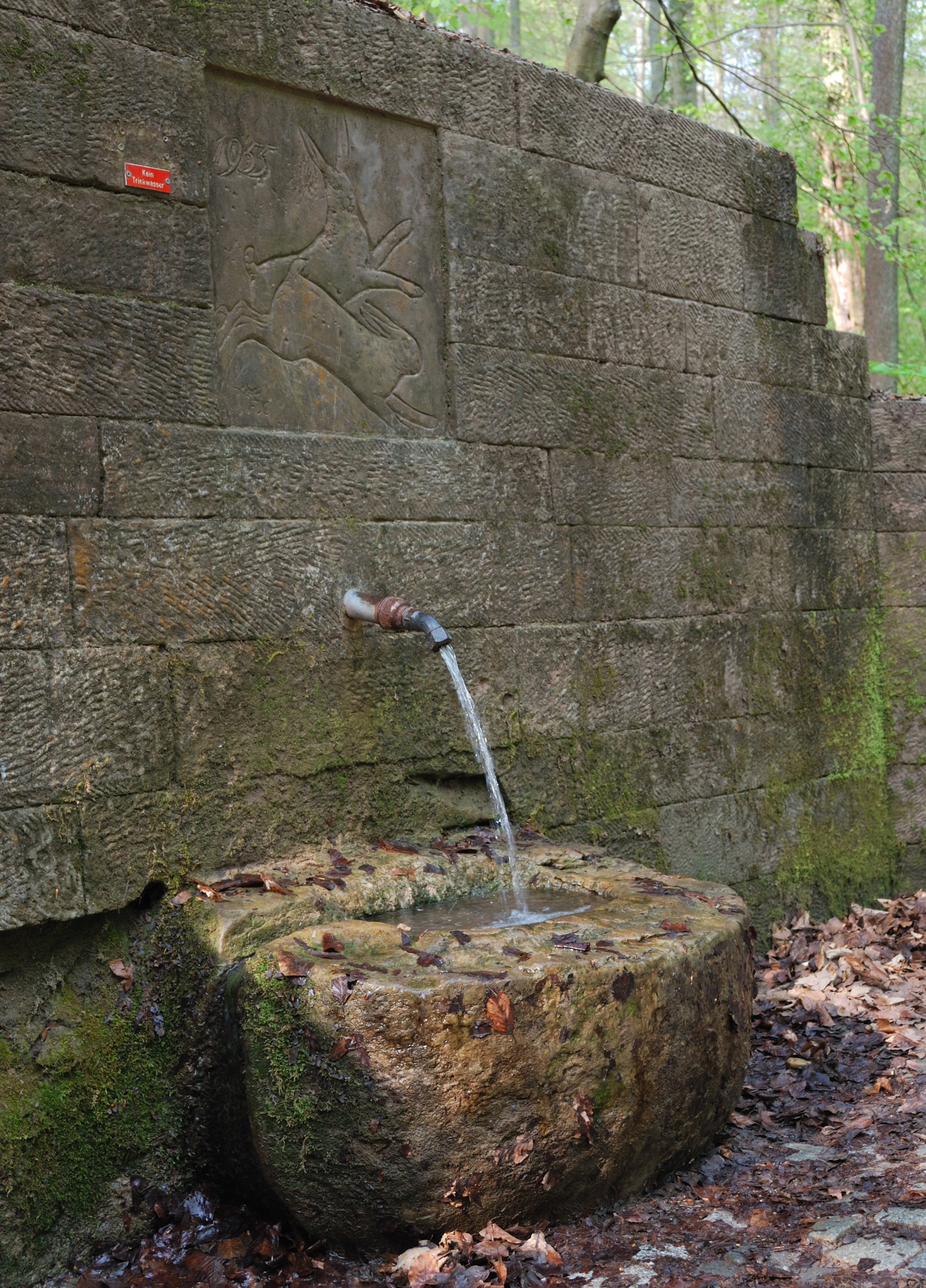 The Hasenbrünnele (rabbit well) in Lindental in Weilimdorf, a district of the city Stuttgart in Southern Germany. The rabbit image was designed by the German artist Prof. Fritz von Graevenitz.